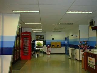 Passenger terminal at Diego Garcia, BIOT. With UK telephone box (functioning).